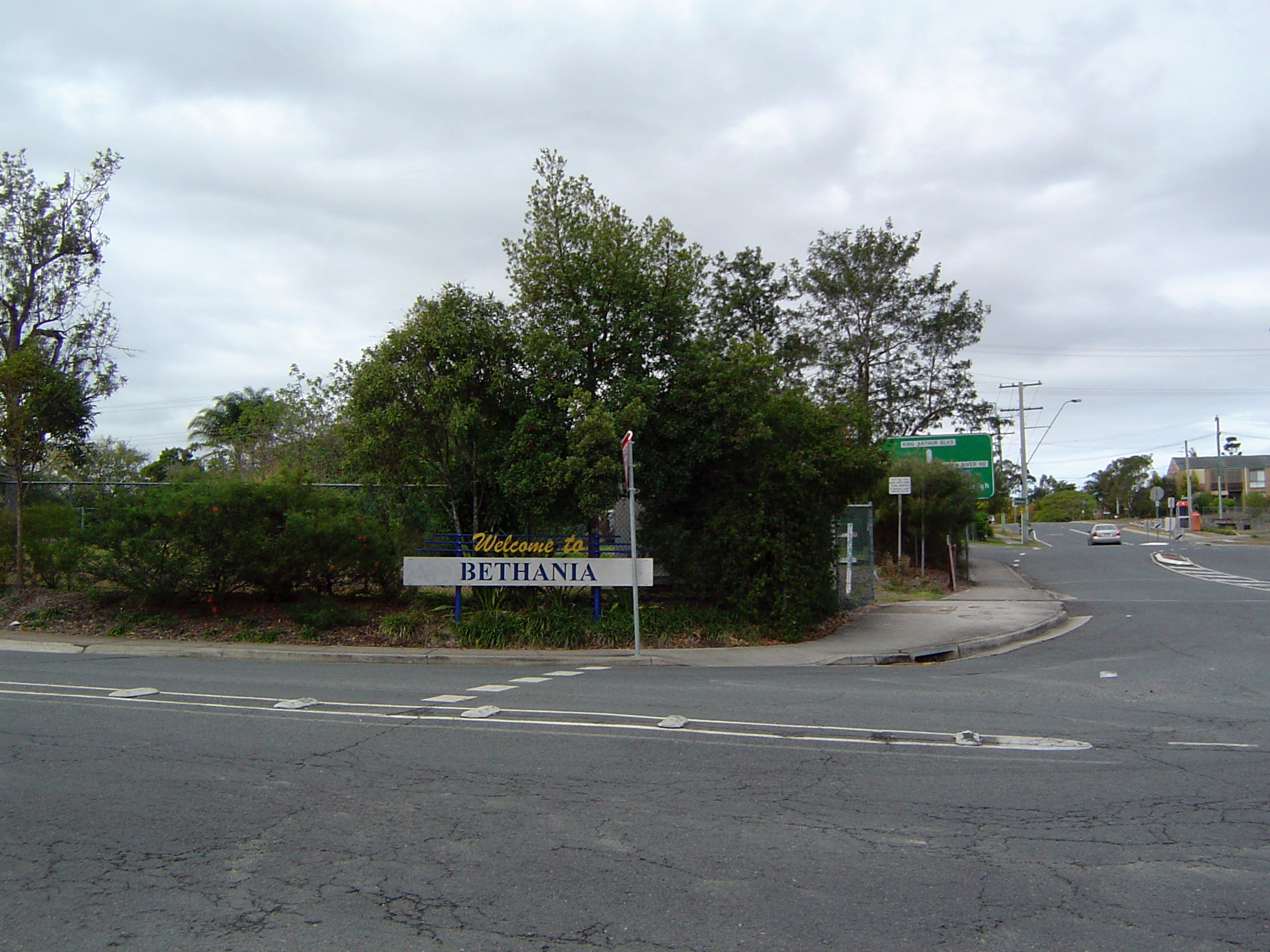 Photo of council sign along Albert Street in Bethania, Logan City, Queensland, Australia.